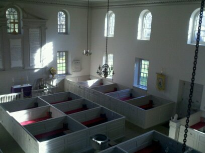 according to a brochure on the church's history, the ceiling moldings and font are the only features remaining from the original interiors.